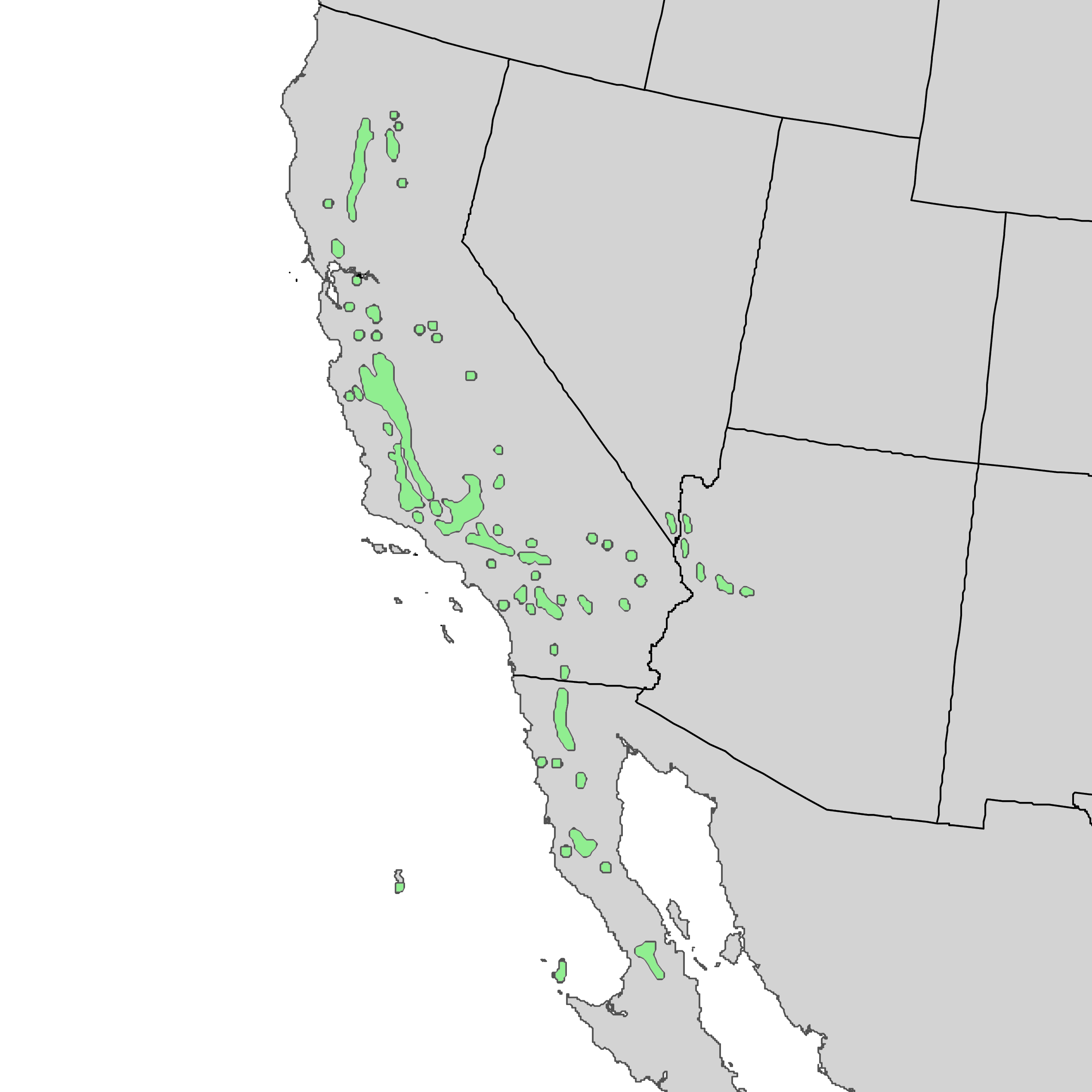 Natural distribution map for Juniperus californica (California juniper)